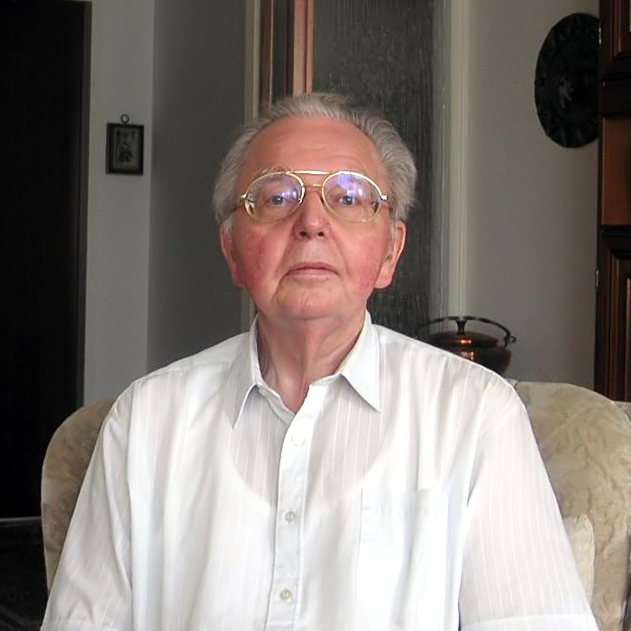 Werner Bahner